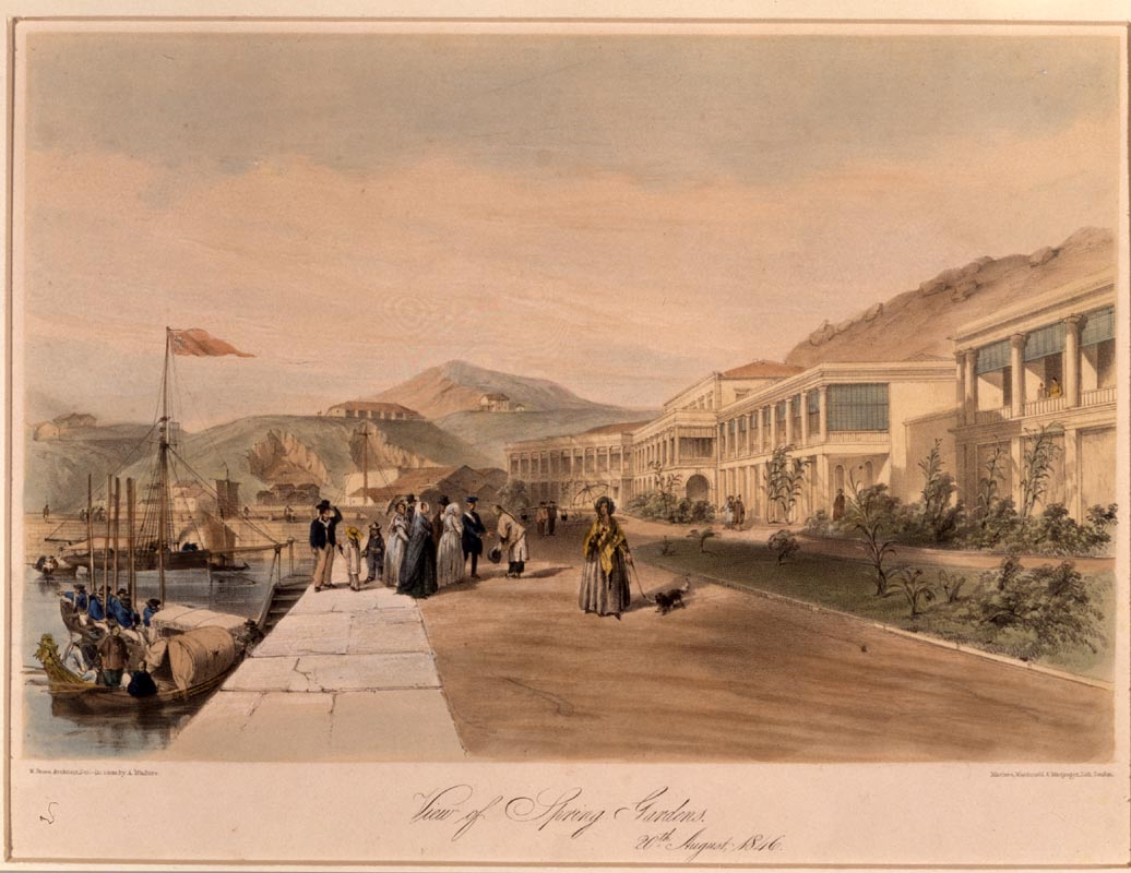 View of Spring Gardens, Hong Kong, 20 August 1846.